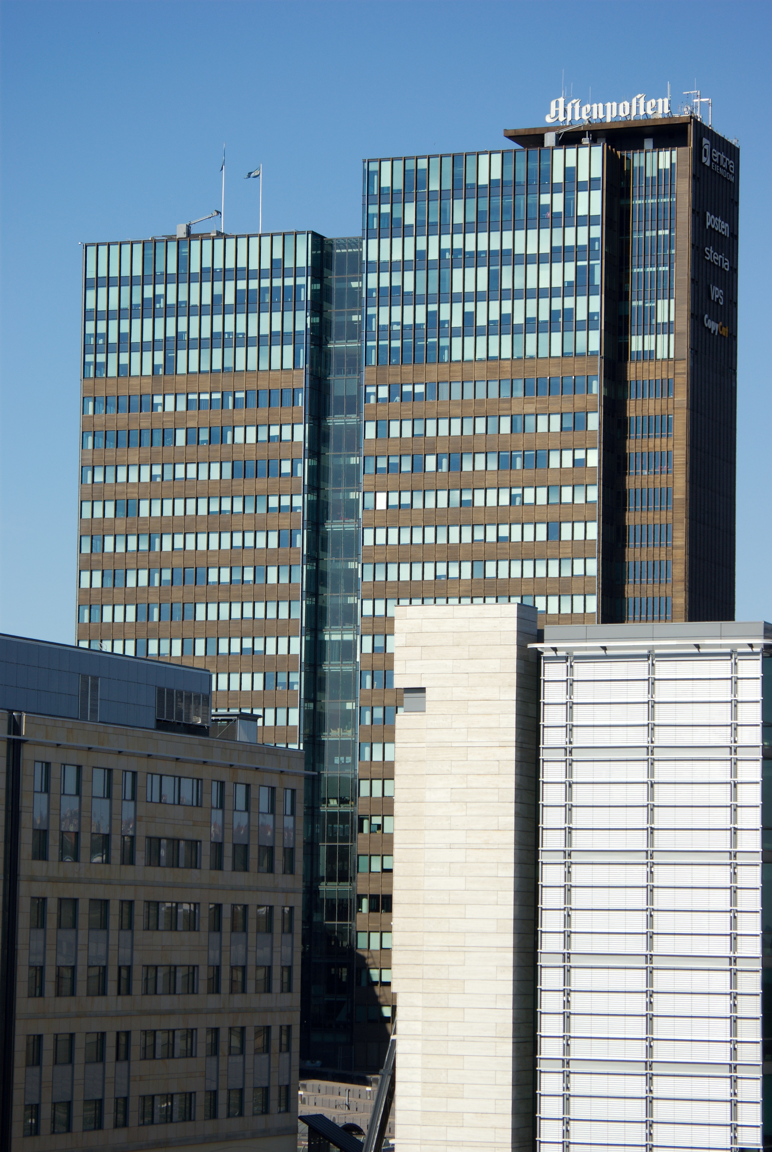 Aftenposten building See above